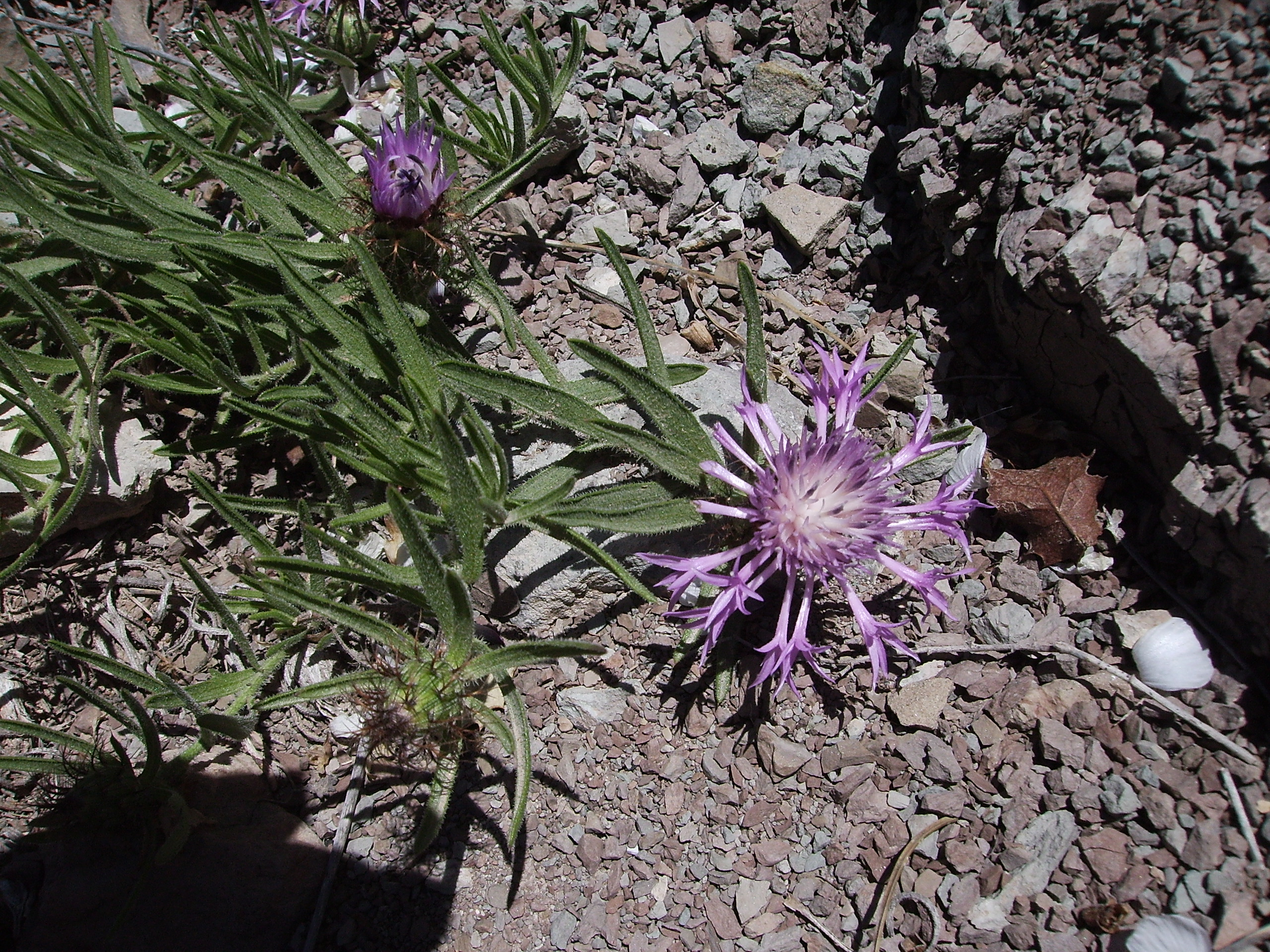 Centaurea linifolia flowering, Castelltallat, Catalonia